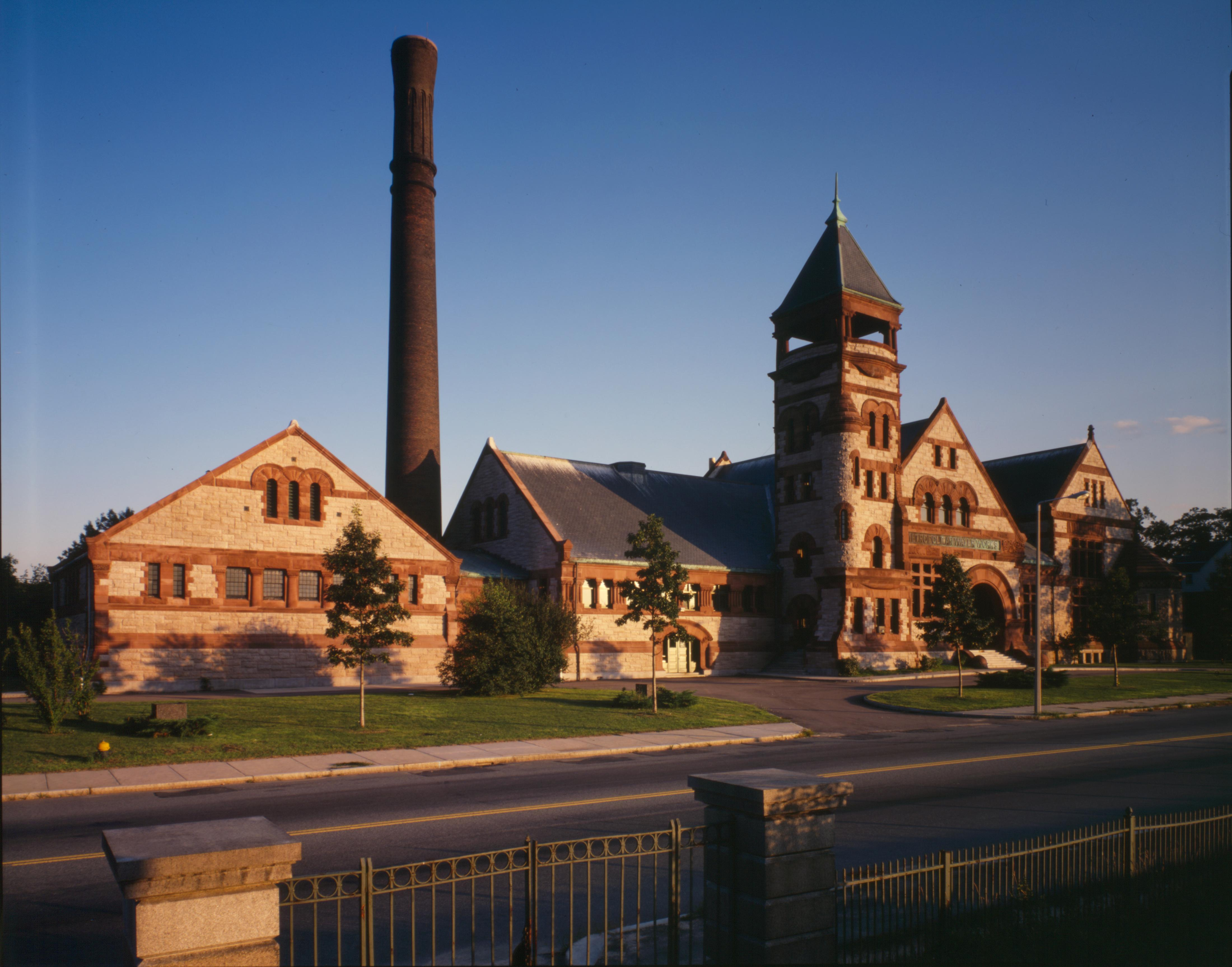 Chestnut Hill Water Works, High-Service Pumping Station, 2450 Beacon Street, Boston, Massachusetts; an example of the Richardsonian Romanesque style of architecture.